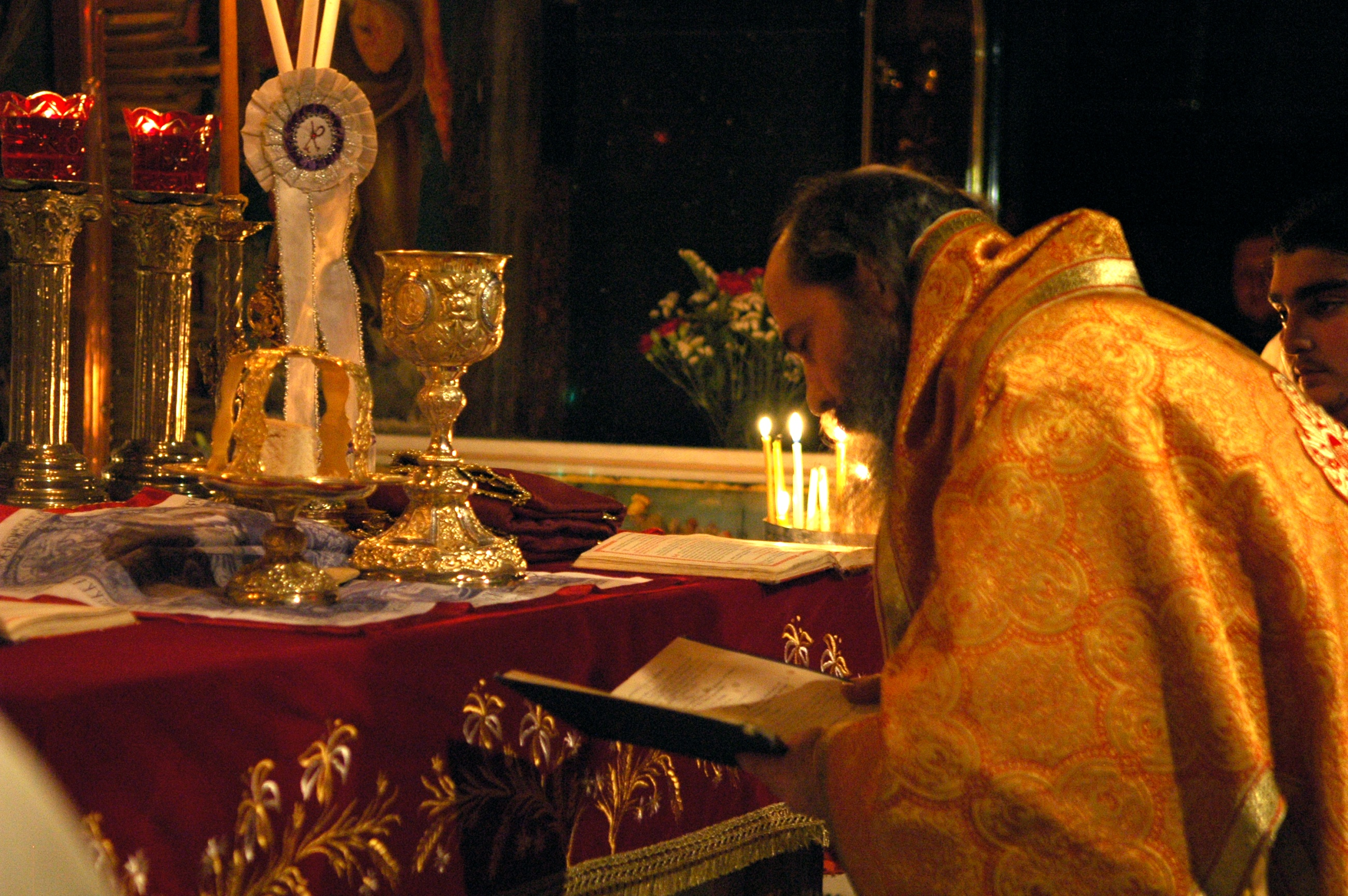 Jerusalem. Church of the Holy Sepulchre. Orthodox Crucifixion altar of Golgotha.